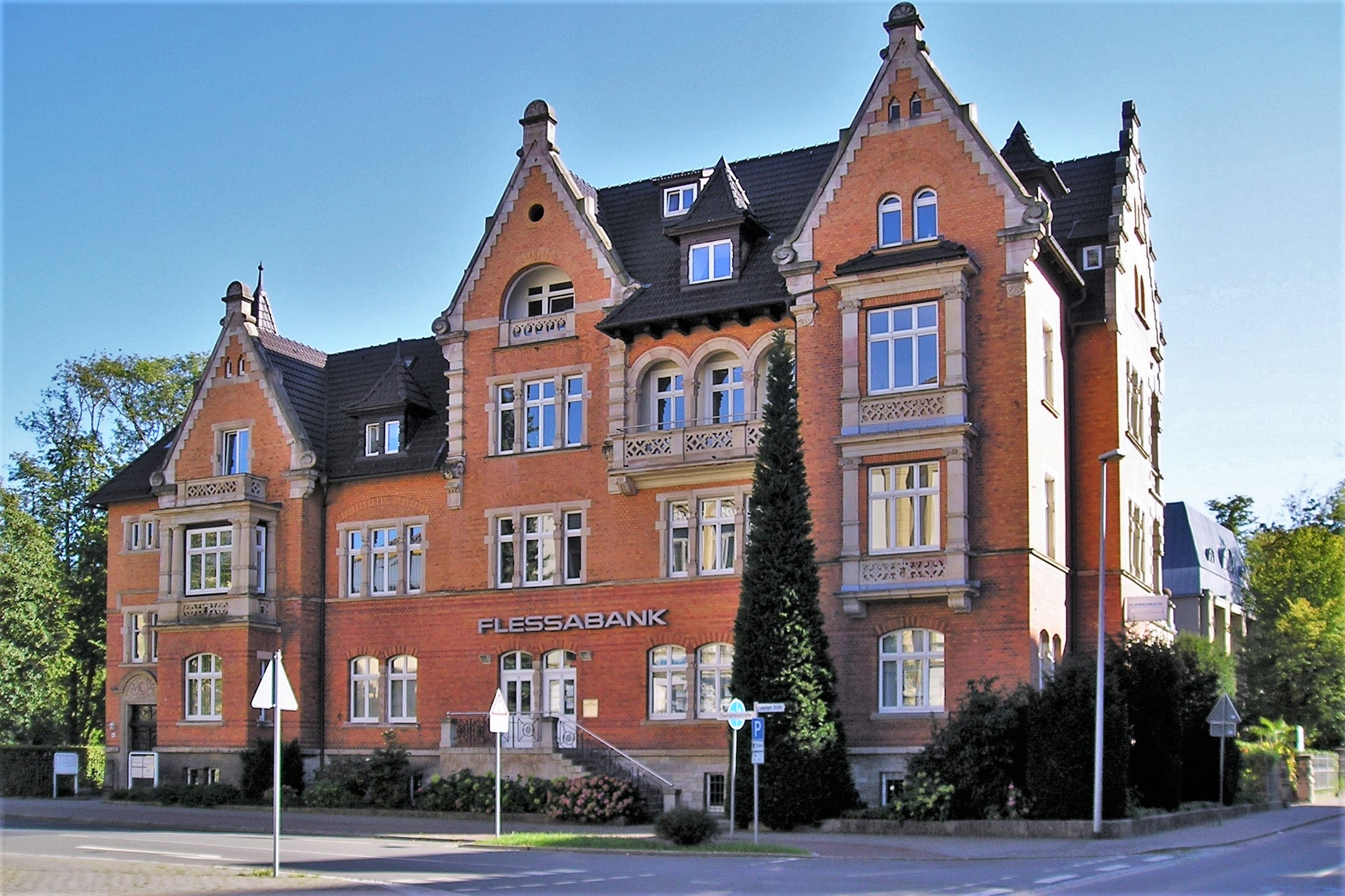 Bank building in City of Meiningen